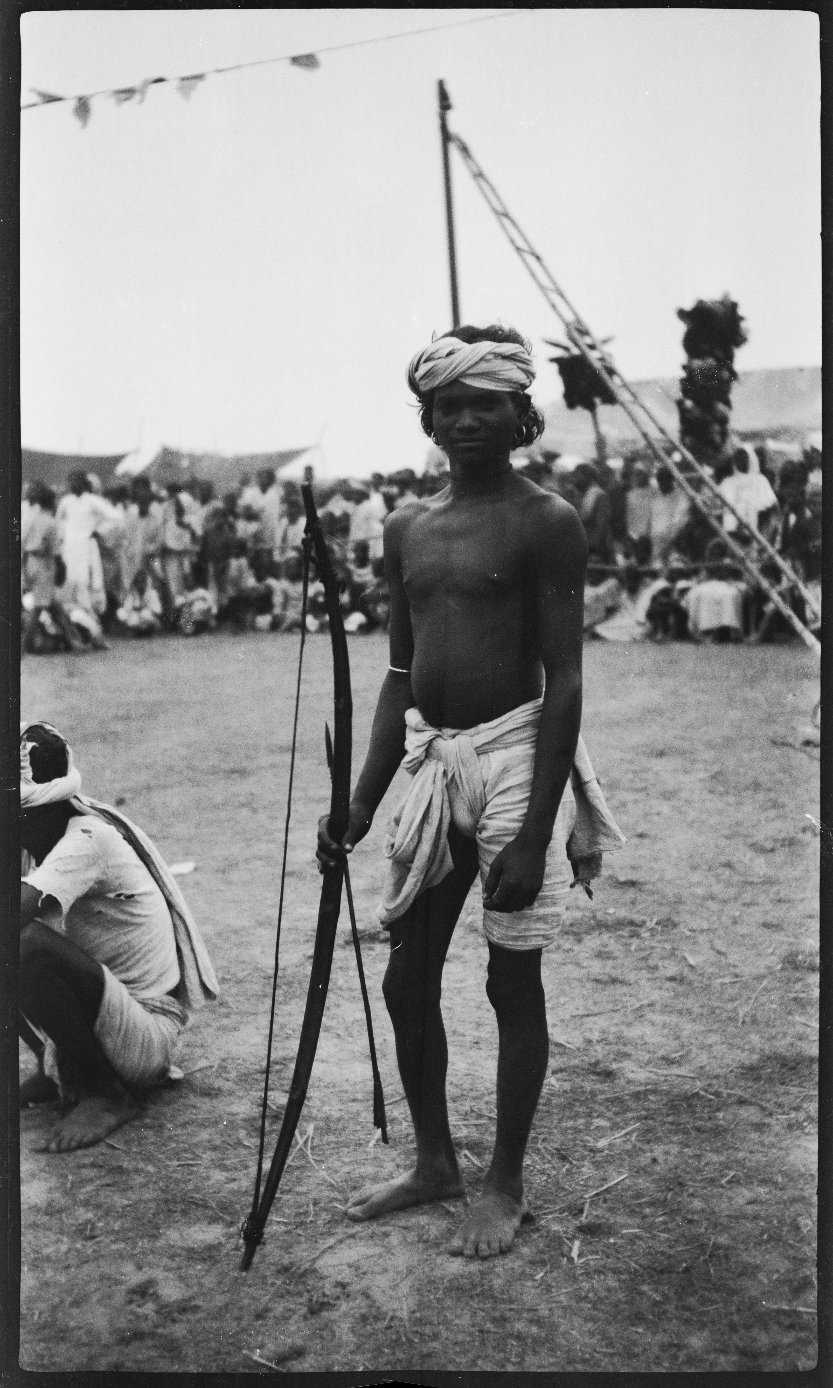 Bolpur, West-Bengal, India From a fair (mela): Santal boy with bow and arrow.